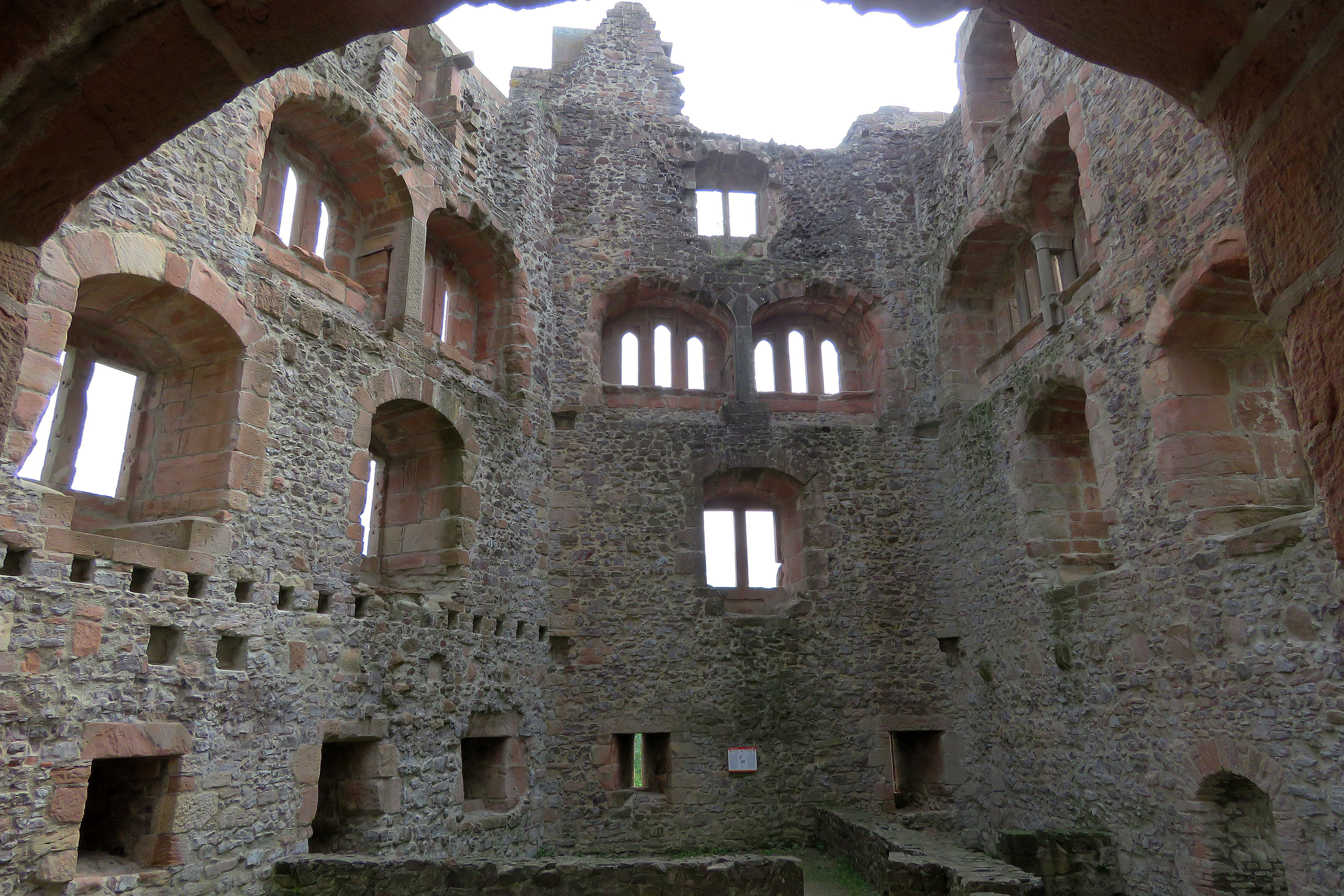 Castle ruin Hohengeroldseck on the B415 on the Schoenberg between the Schuttertal and the Kinzigtal.